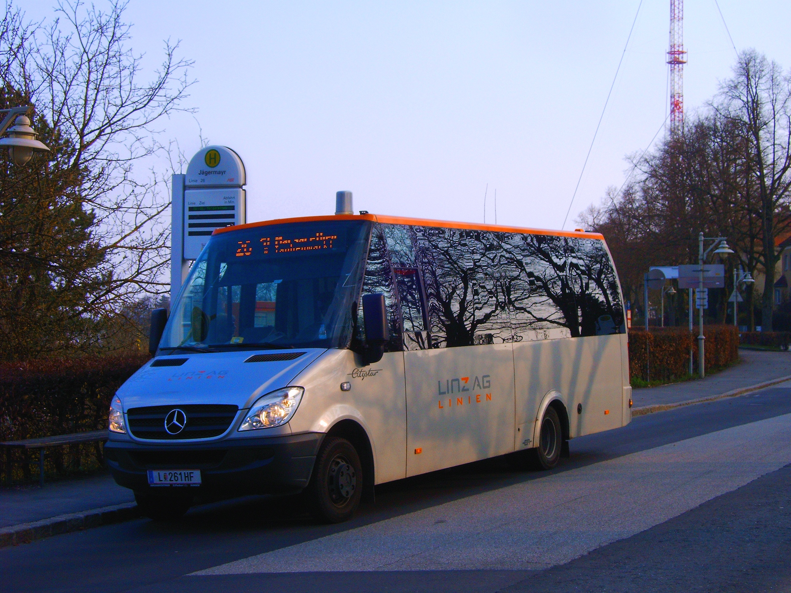 "Auwärter Sprinter Citystar" minibus operated by Linz Linen standing at the busstop Jägermayr, driving to Sankt Margarethen on the Line 26. Linz Linien operates minibusses on Stadtteilbuslinien, minor lines connecting suburbs with streetcar stations or other interchange stations. Stadtteilbuslinien are not operated on Sundays and bank holidays, on these days, the minibuses are sent to other lines, which are normally operated with solesbuses.